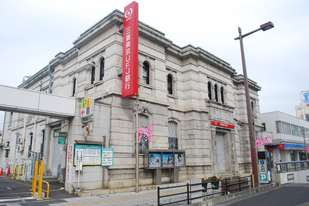 Mito branch,Bank of Tokyo-mitsubishi-UFJ,Mito-city,Japan